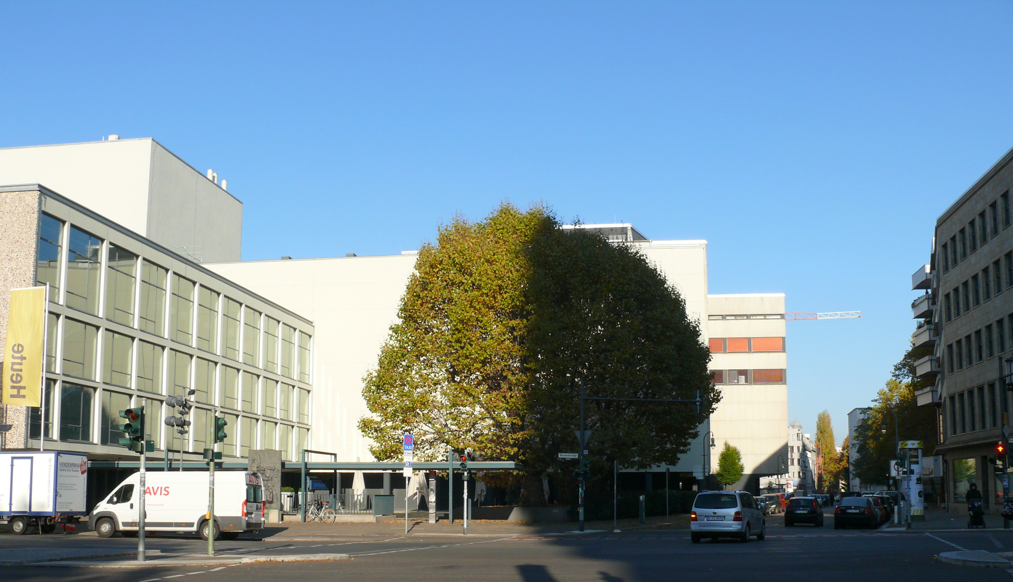 Charlottenburg Götz-Friedrich-Platz